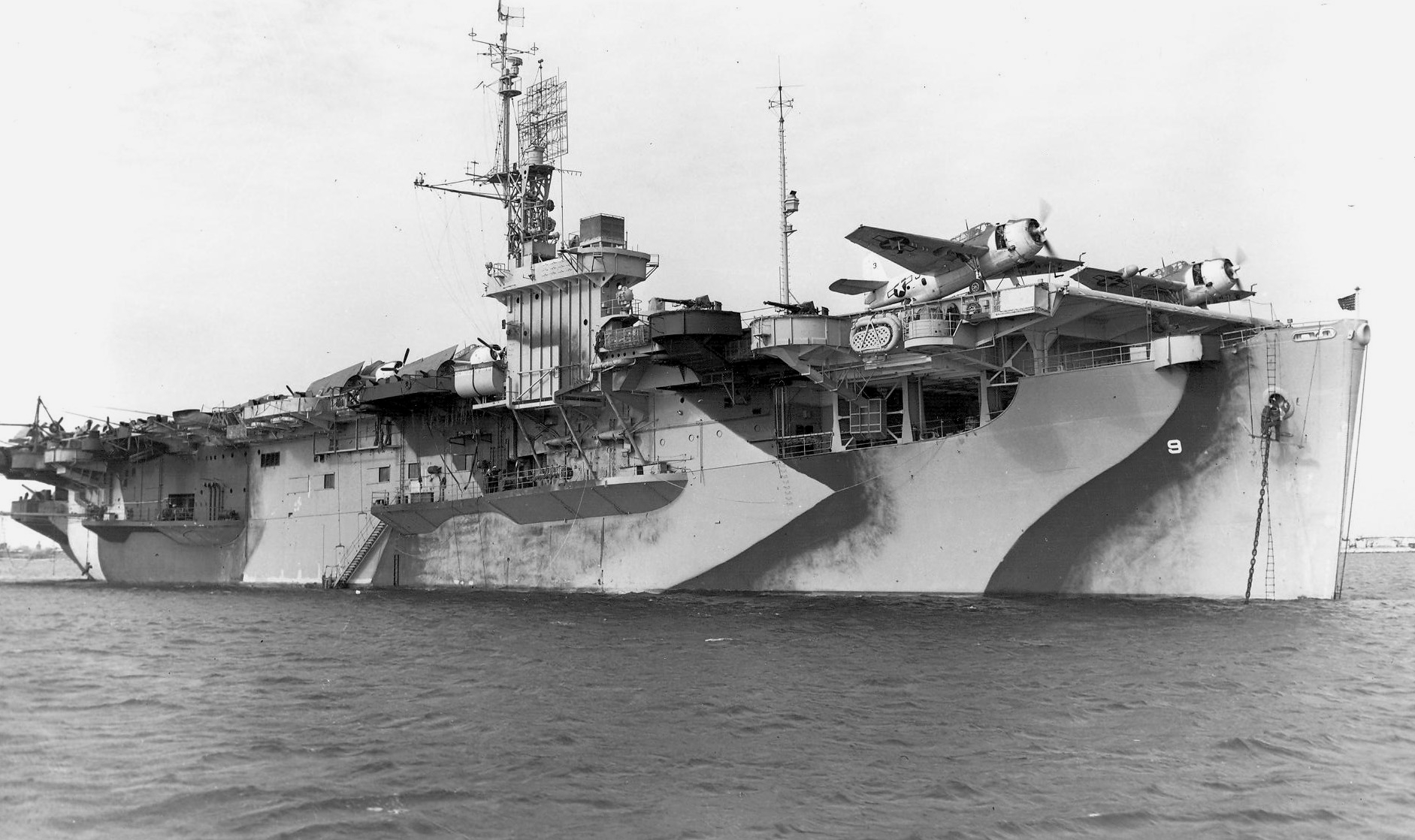 The U.S. Navy escort carrier USS Bogue (CVE-9) at anchor at Bermuda, a pair of TBM Avengers on her flight deck testing their engines. Bogue wears Camouflage Measure 32, Design 4A.